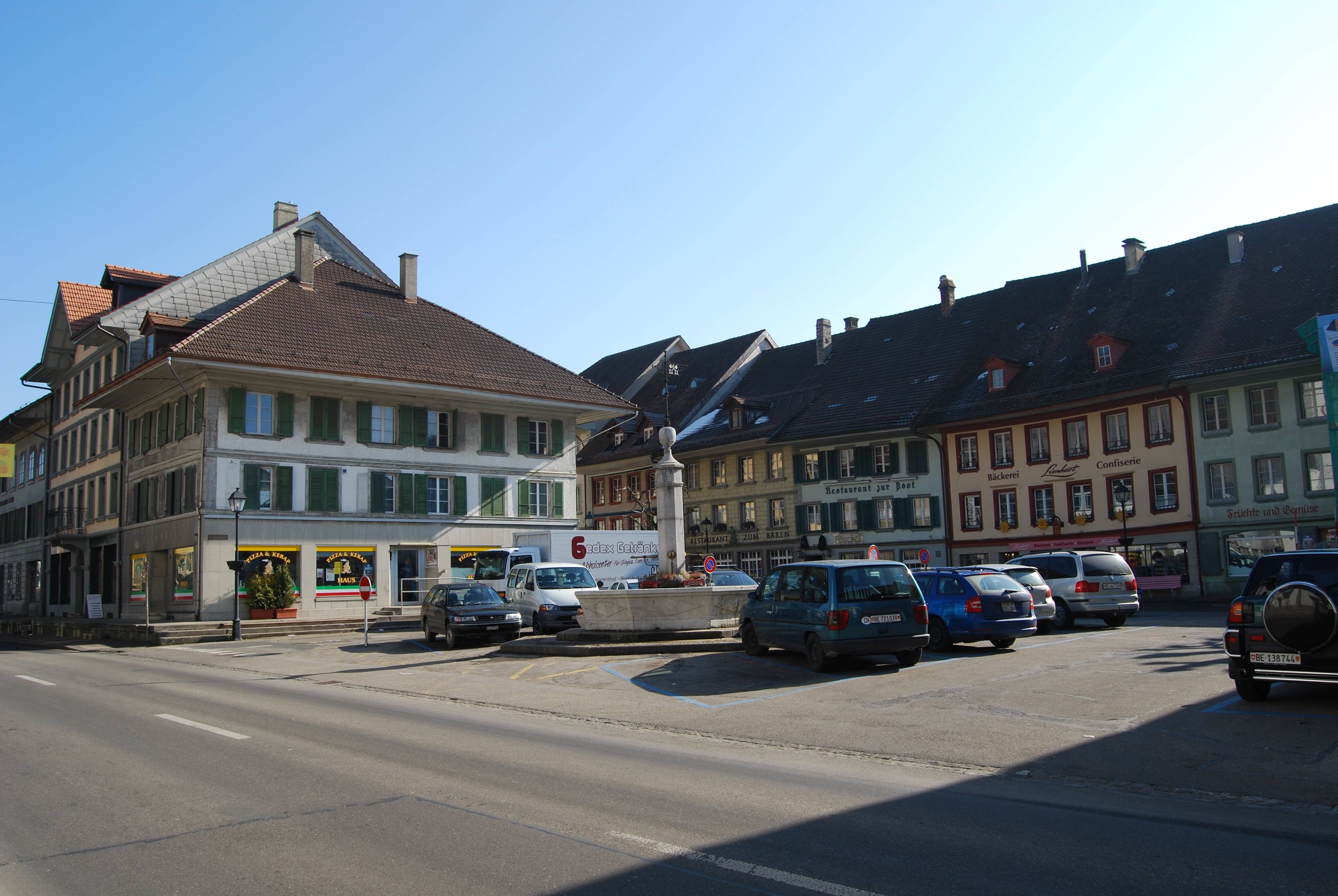 Huttwil, canton of Bern, SwitzerlandEsperanto: Huttwil, Kantono Berno, Svislando